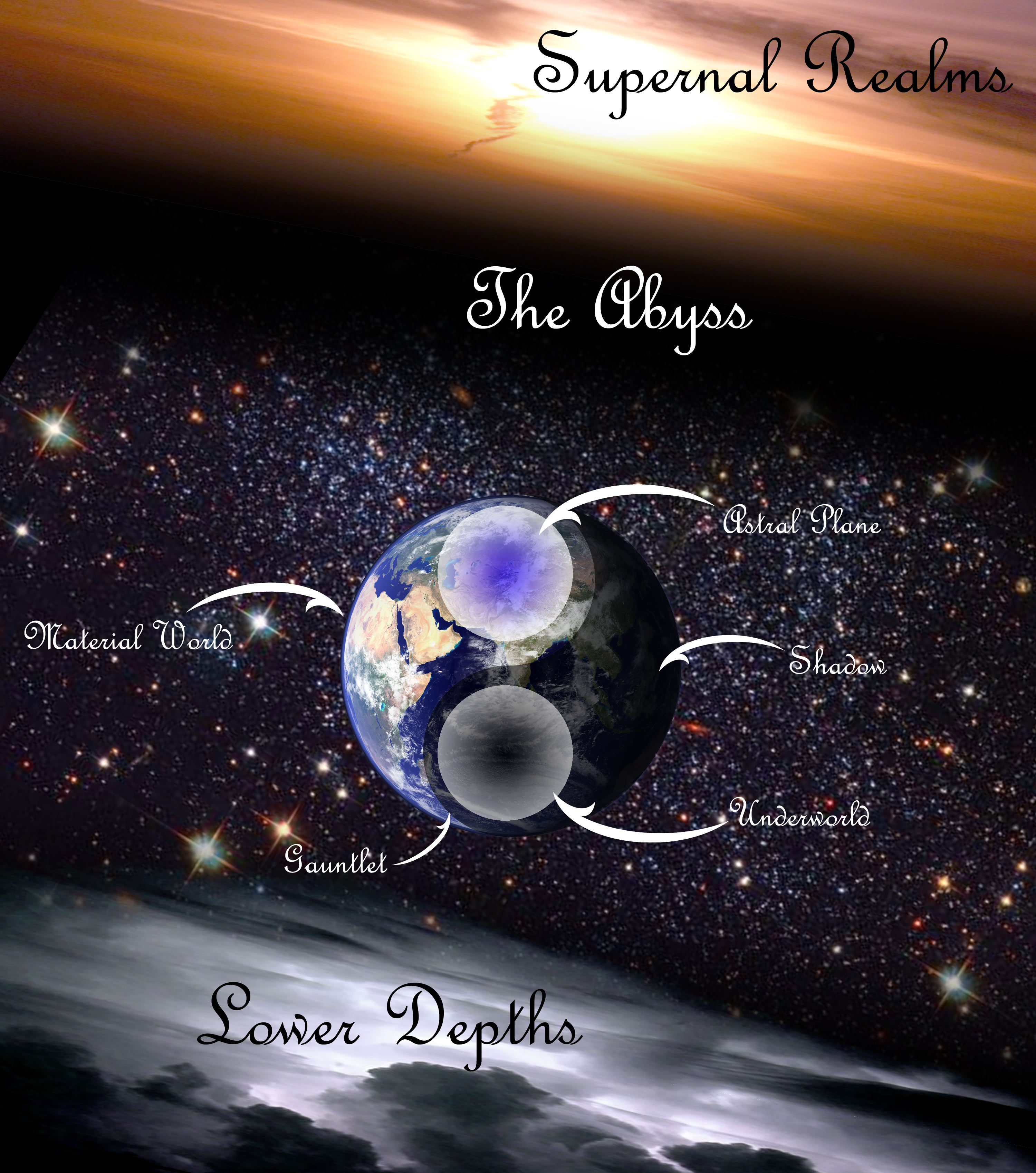 Collage, to match the New WoD Cosmology as seen by some fans.